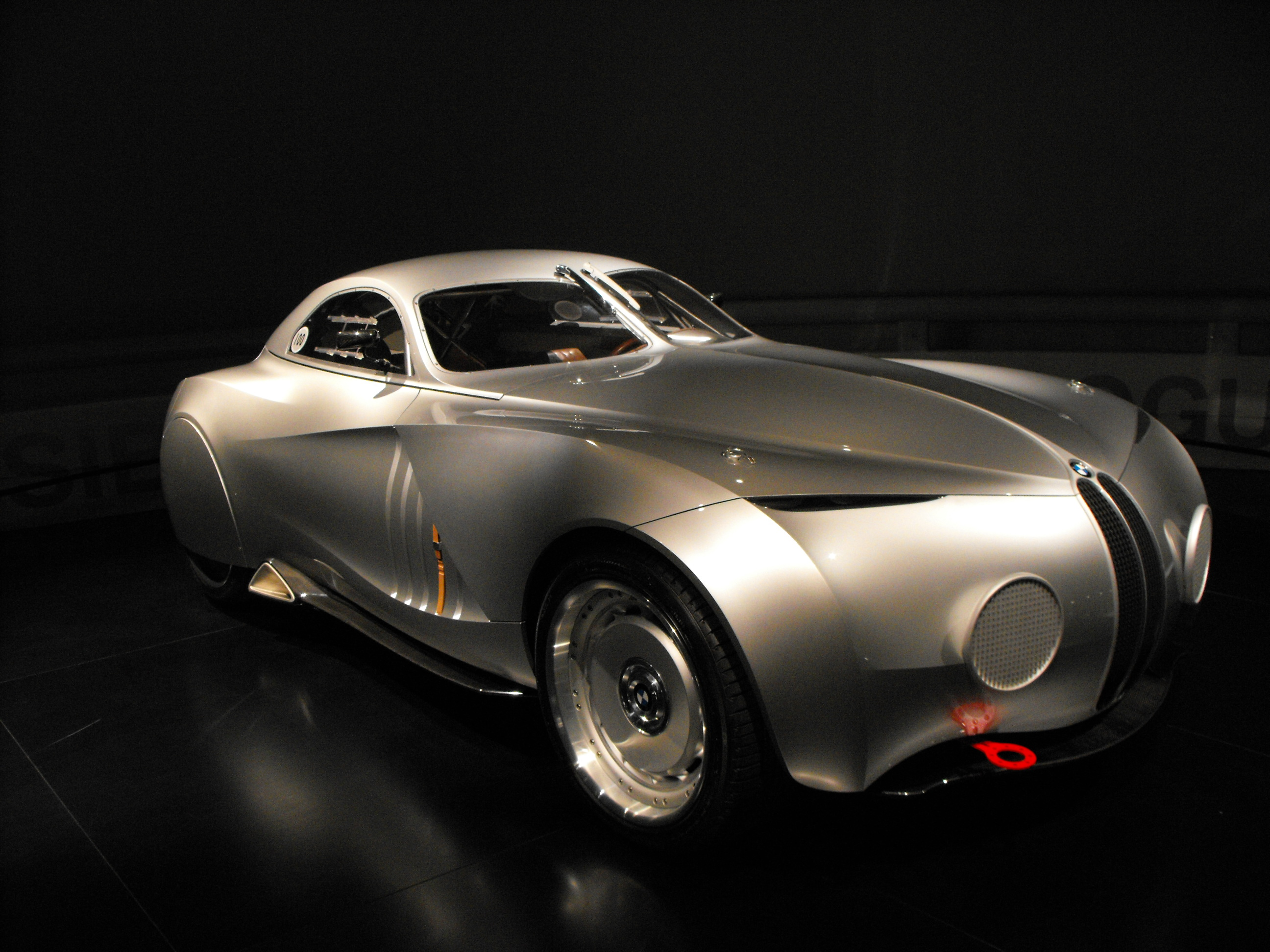 BMW Mille Miglia, picture taken in BMW Museum